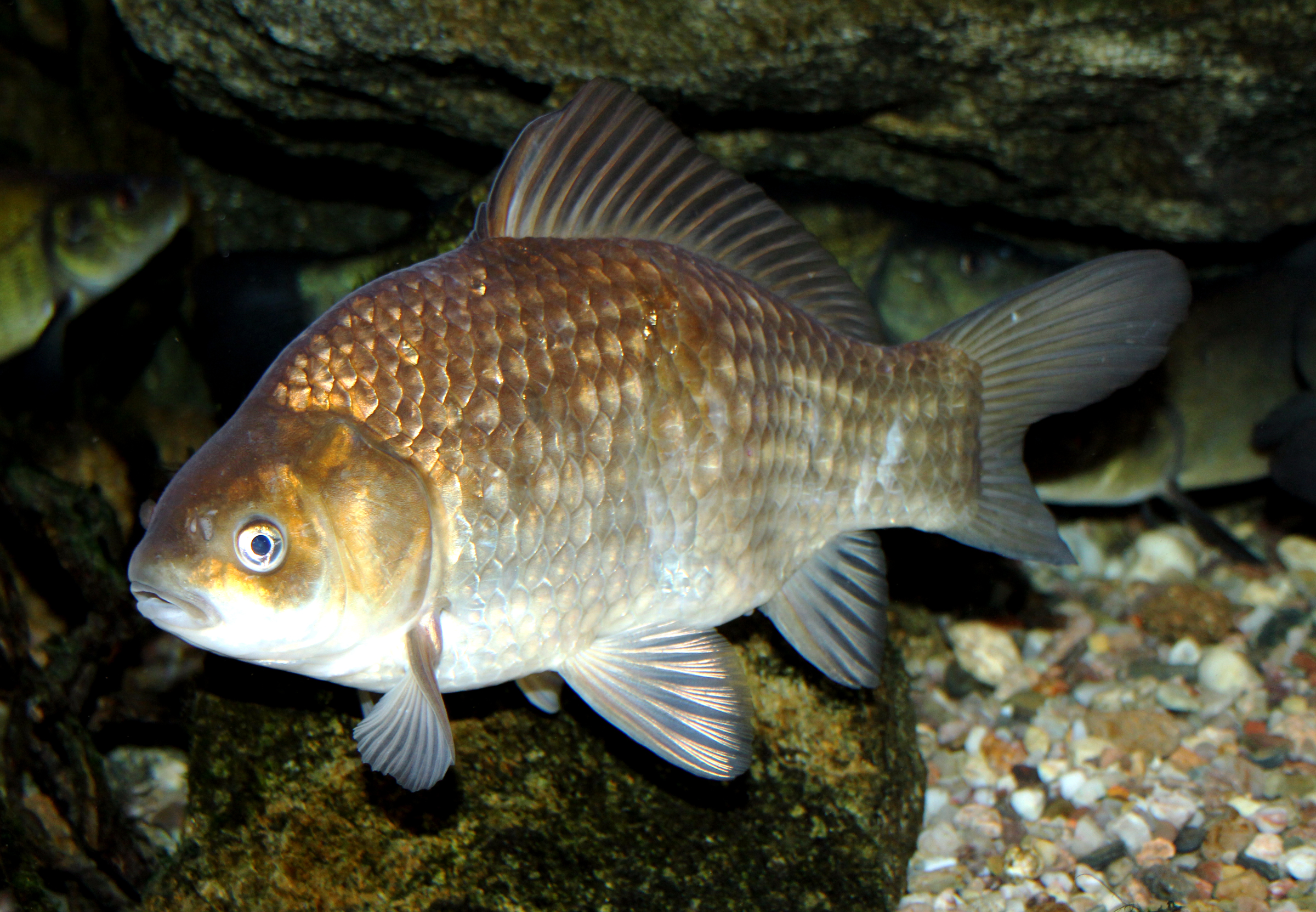 Crucian carp on exhibition Subaqueous Vltava, Prague 2011, Czech Republic